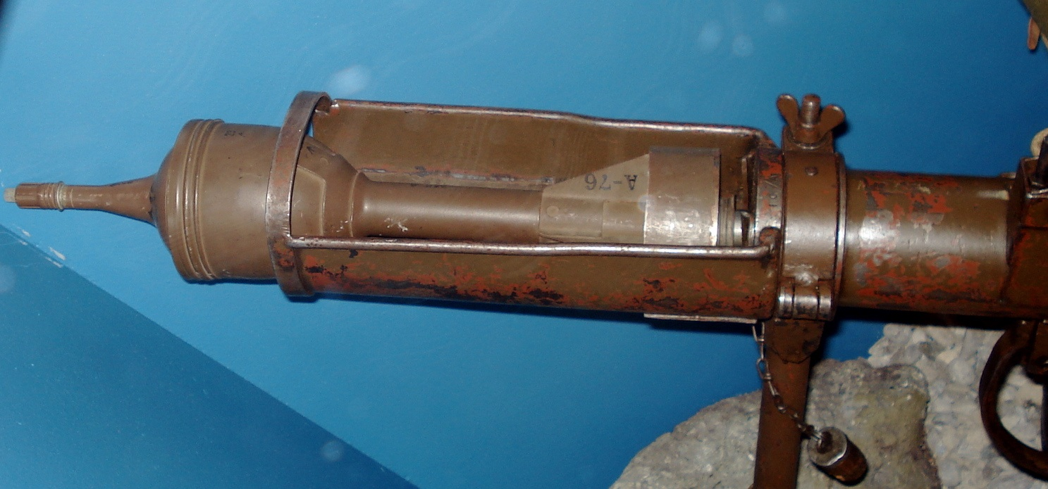 British anti-tank weapon PIAT, displayed at the Royal Canadian Regiment Military Museum in London, Ontario. Photo taken on August 10, 2006. Source: Photo by me, User:Balcer.